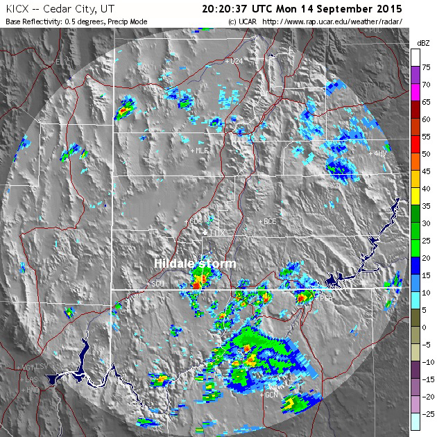 NEXRAD image from Cedar City, Utah depicting a thunderstorm near Hildale that killed 12 people in a flash flood.